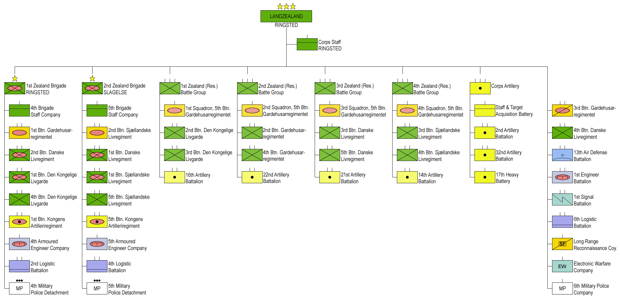 Structure of NATO's Allied Land Forces Zealand in 1989